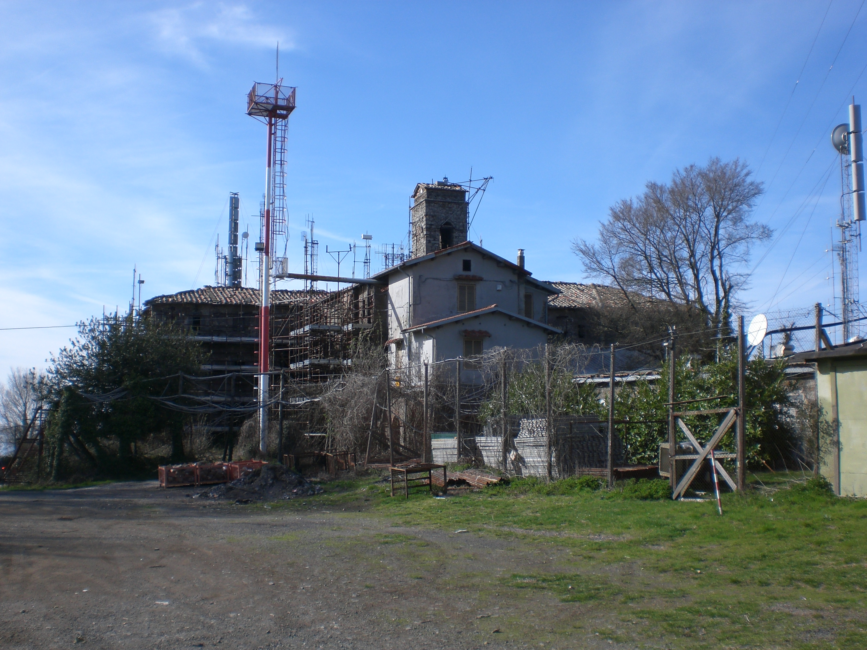 The structure on the top of the hill, Monte Cavo